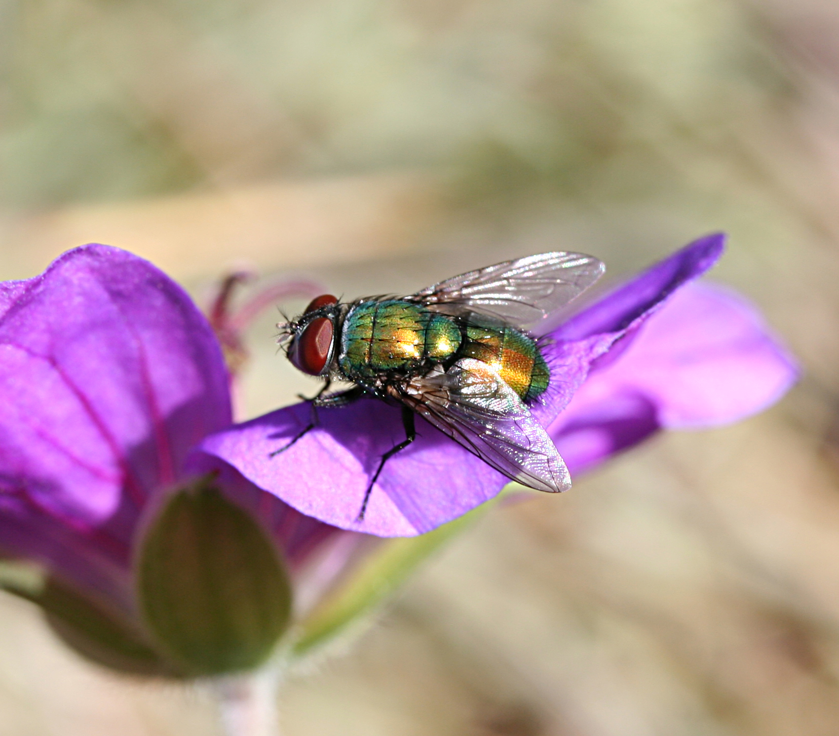 Green bottle fly (Lucilia sericata)